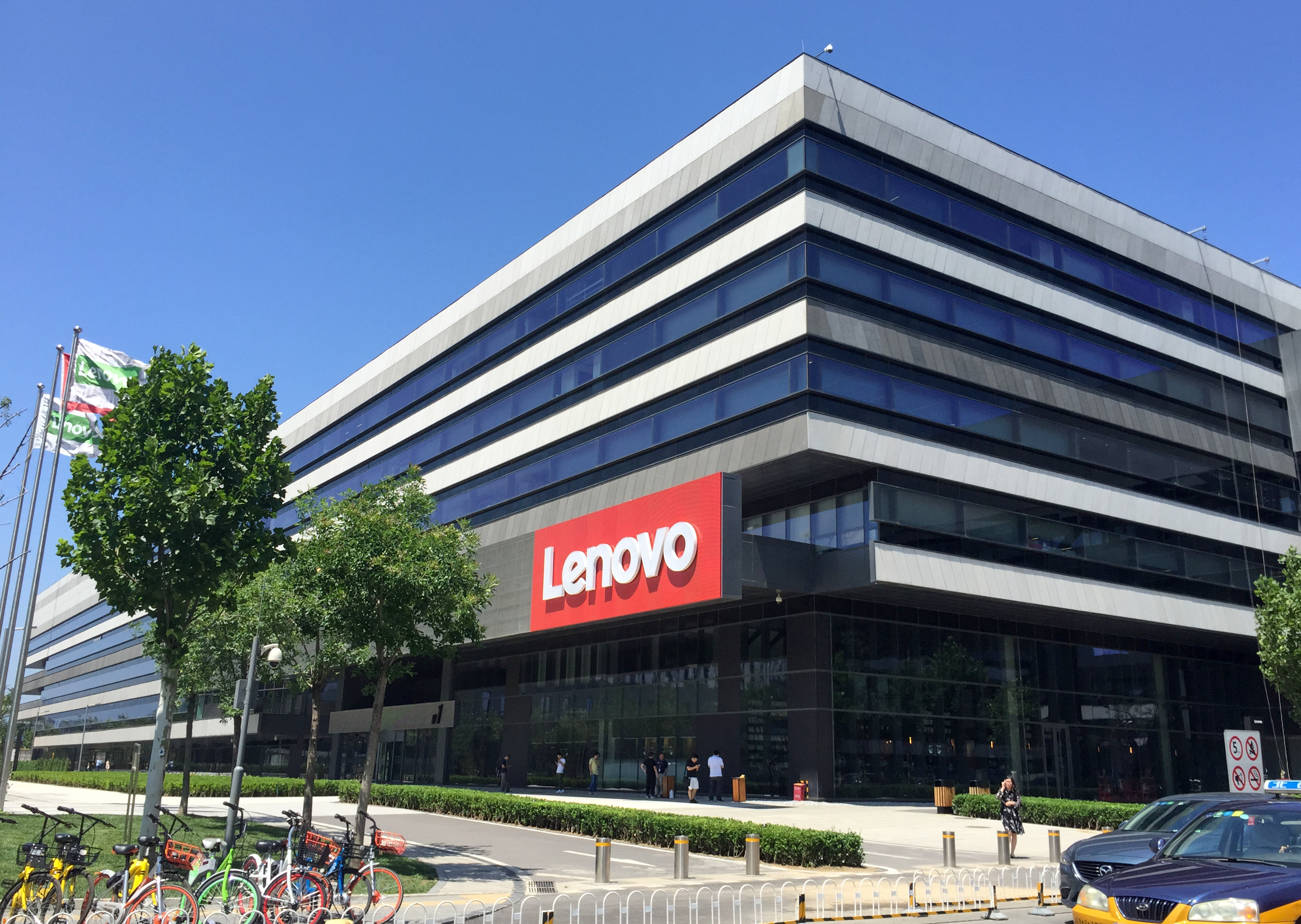 New HQ building completed in 2015, near Xibeiwang (but actually in the territory of Malianwa Subdistrict).